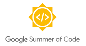 Google Summer of Code Logo